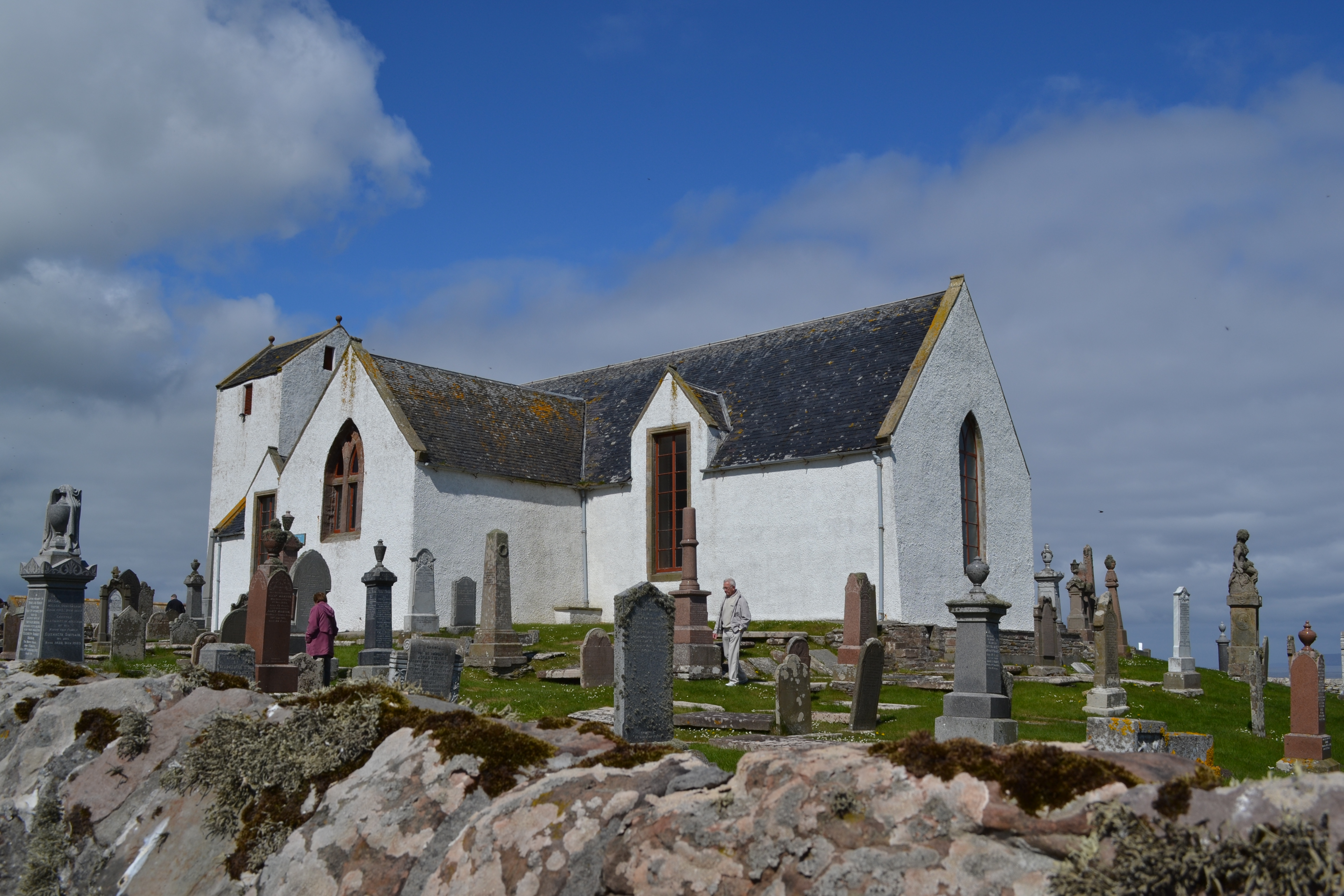 Canisbay Parish Church, Kirkstyle, Caithness